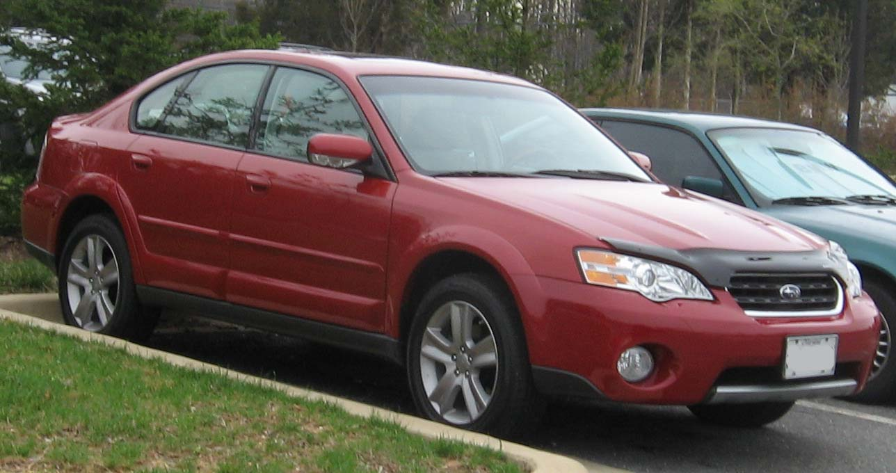 2005-2007 Subaru Outback photographed in USA.